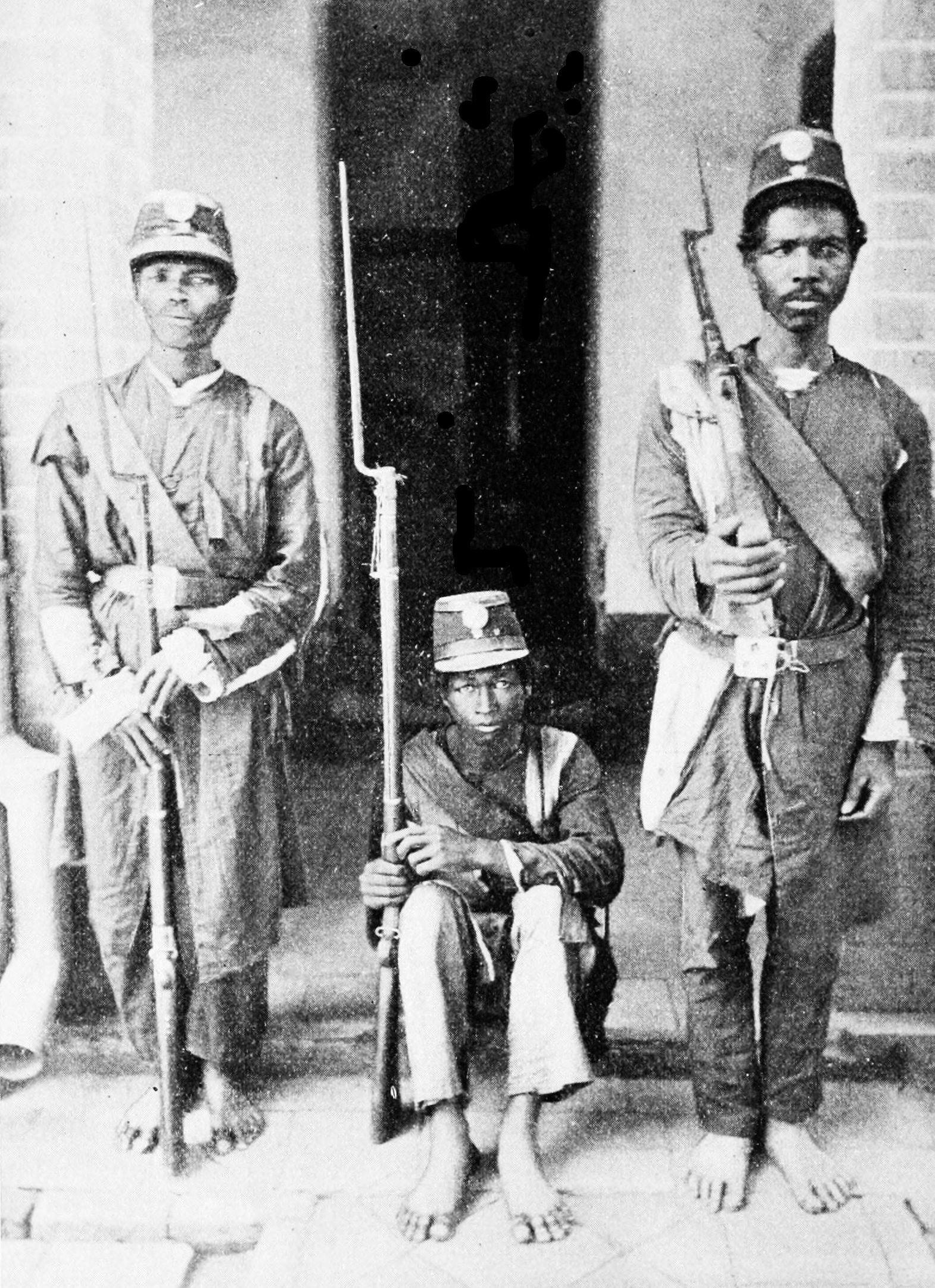 Native soldiers of Madagascar